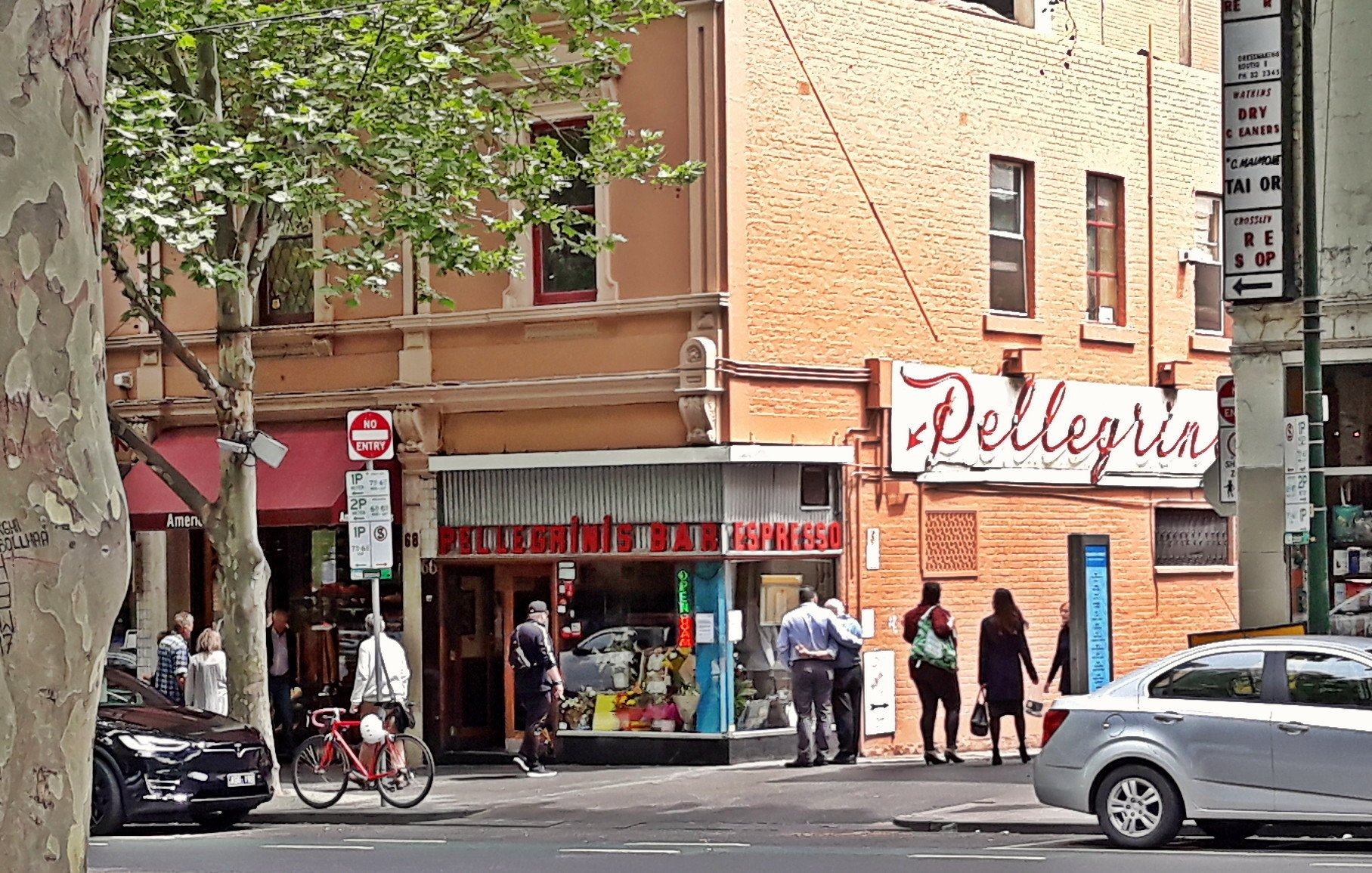 A building on the corner of a street with flowers in the window.